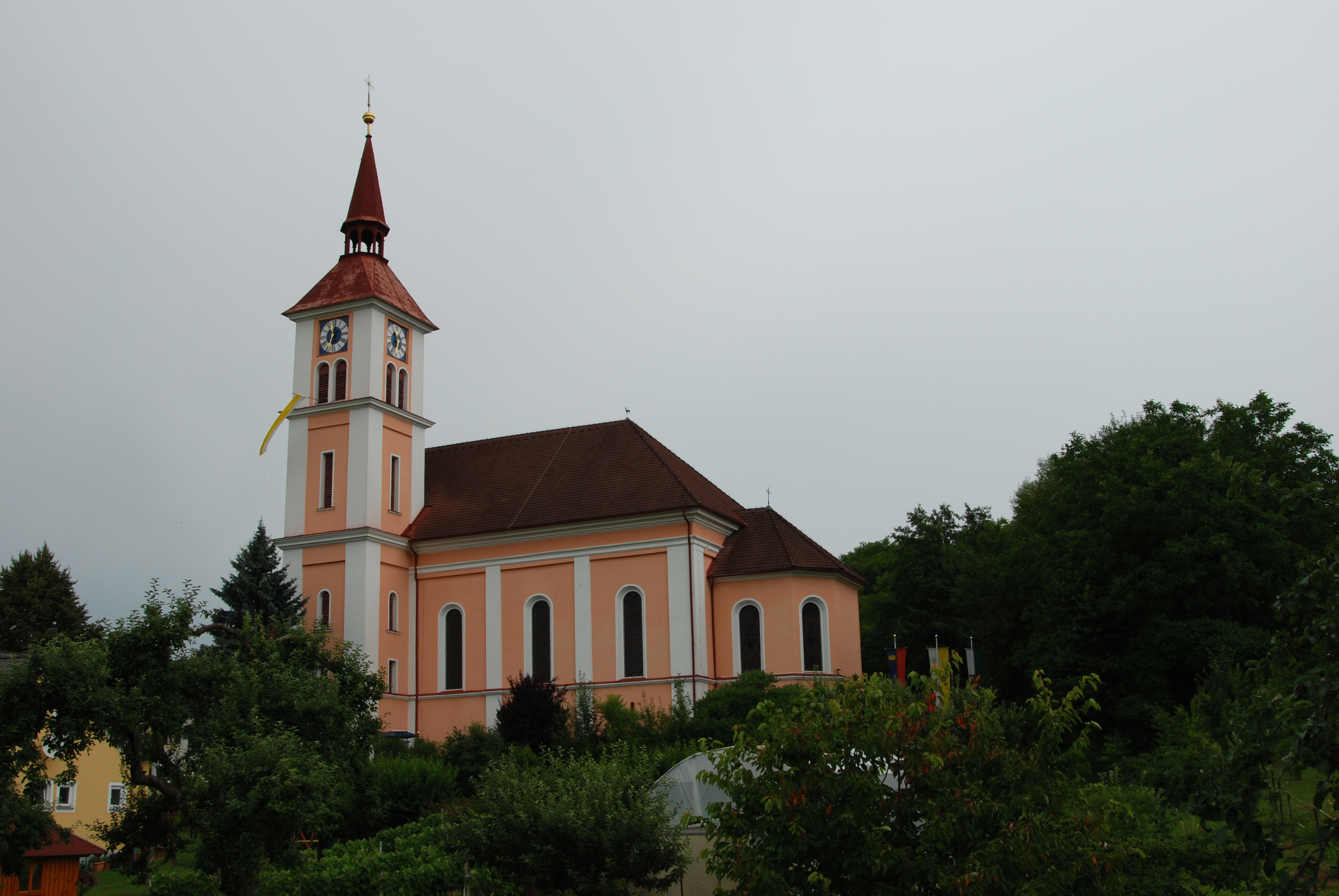 Church of Unterlamm